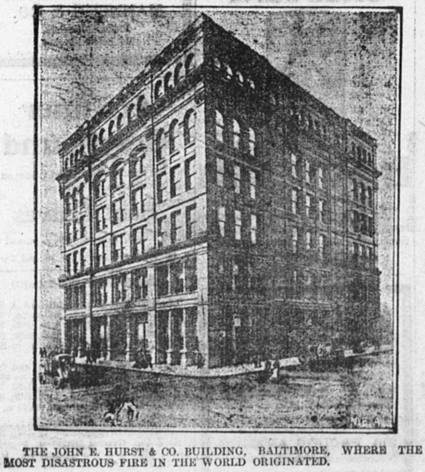 in February 1904, the Great Baltimore Fire began in the John E. Hurst Building; over 1500 buildings were destroyed.